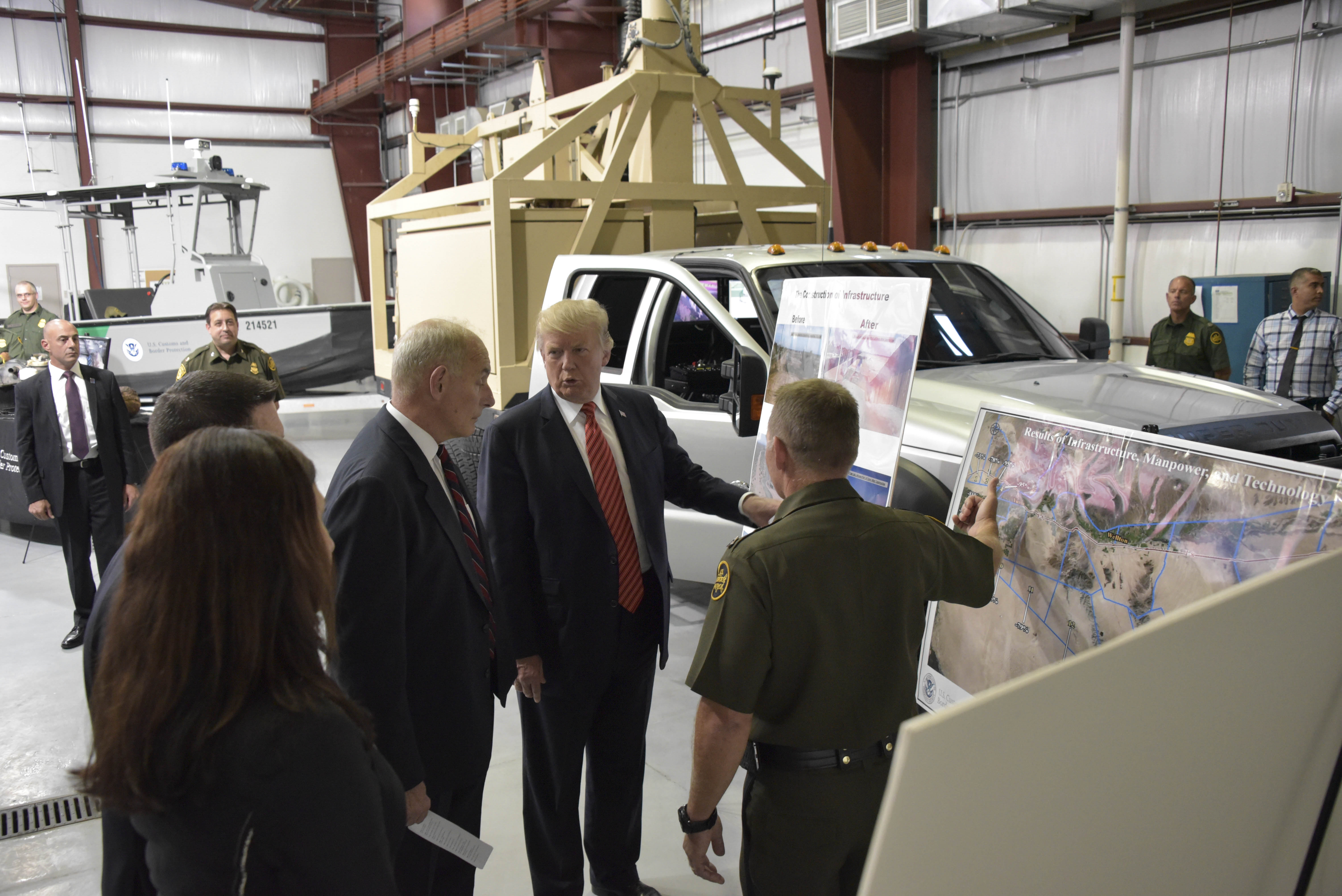 Photos of POTUS, CoS Kelly, AS1, Acting Commissioner Kevin McAleenan, CBP; and Acting Director Tom Homan, ICE touring CBP Border Equipment at the CBP Yuma Air Branch Hanger where they met with CBP officers and Border Patrol agents who discussed the capabilities of the equipment they use to detect illegal activity at the U.S., Mexico border. Yuma Sector Chief Patrol Agent Anthony Porvaznik, BP gave a presentation to President Trump about the border wall prototypes and the layer or resources used to help detect illegal activity at the border. Photographer: Jetta Disco